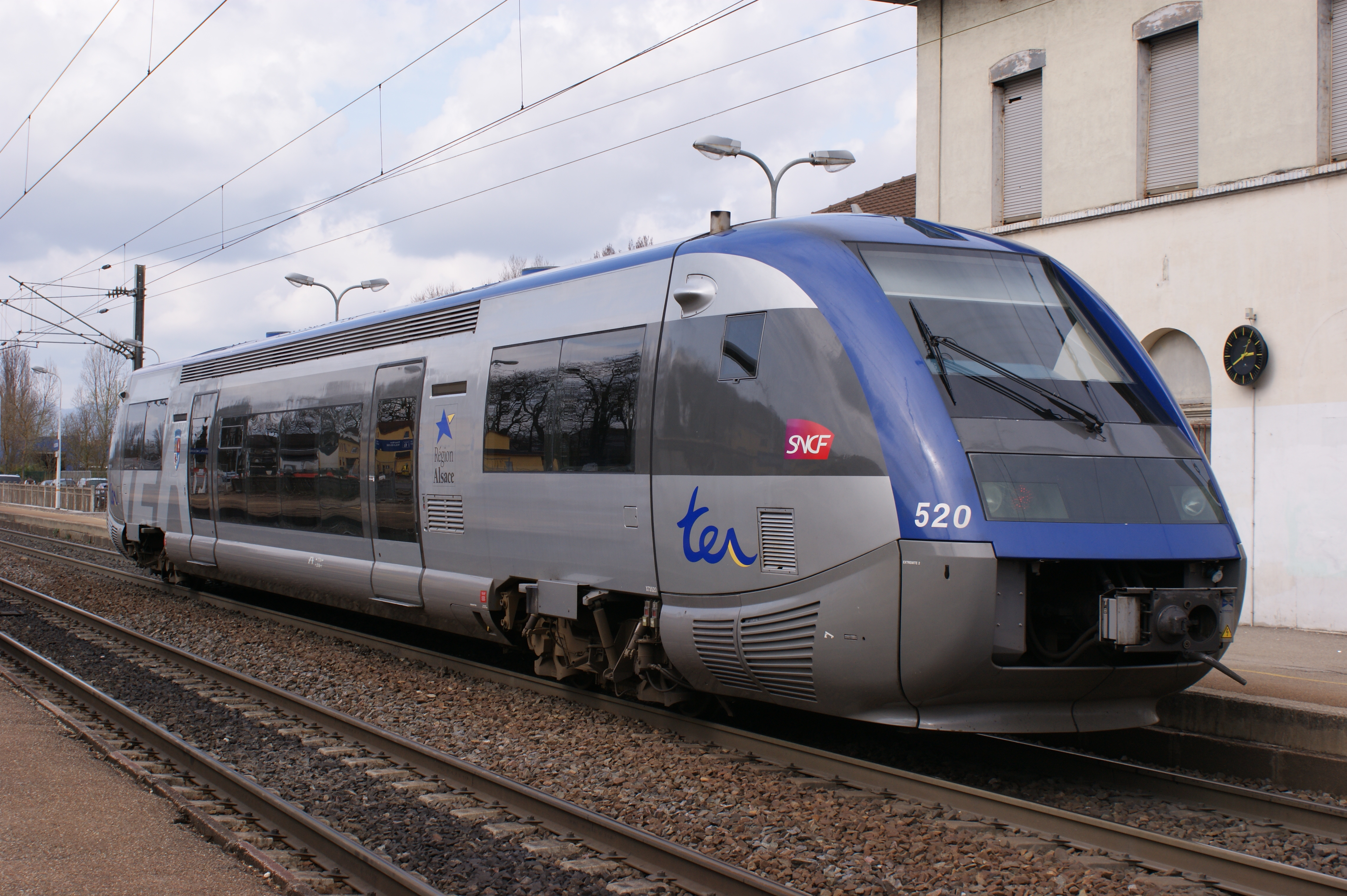 SNCF Alstom X73500 Class diesel hydraulic railcar No.(X73)621 "Sessenheim" in TER grey & silver livery at Mulhouse-Dornach on a Kruth - Mulhouse Ville service, 3/09.